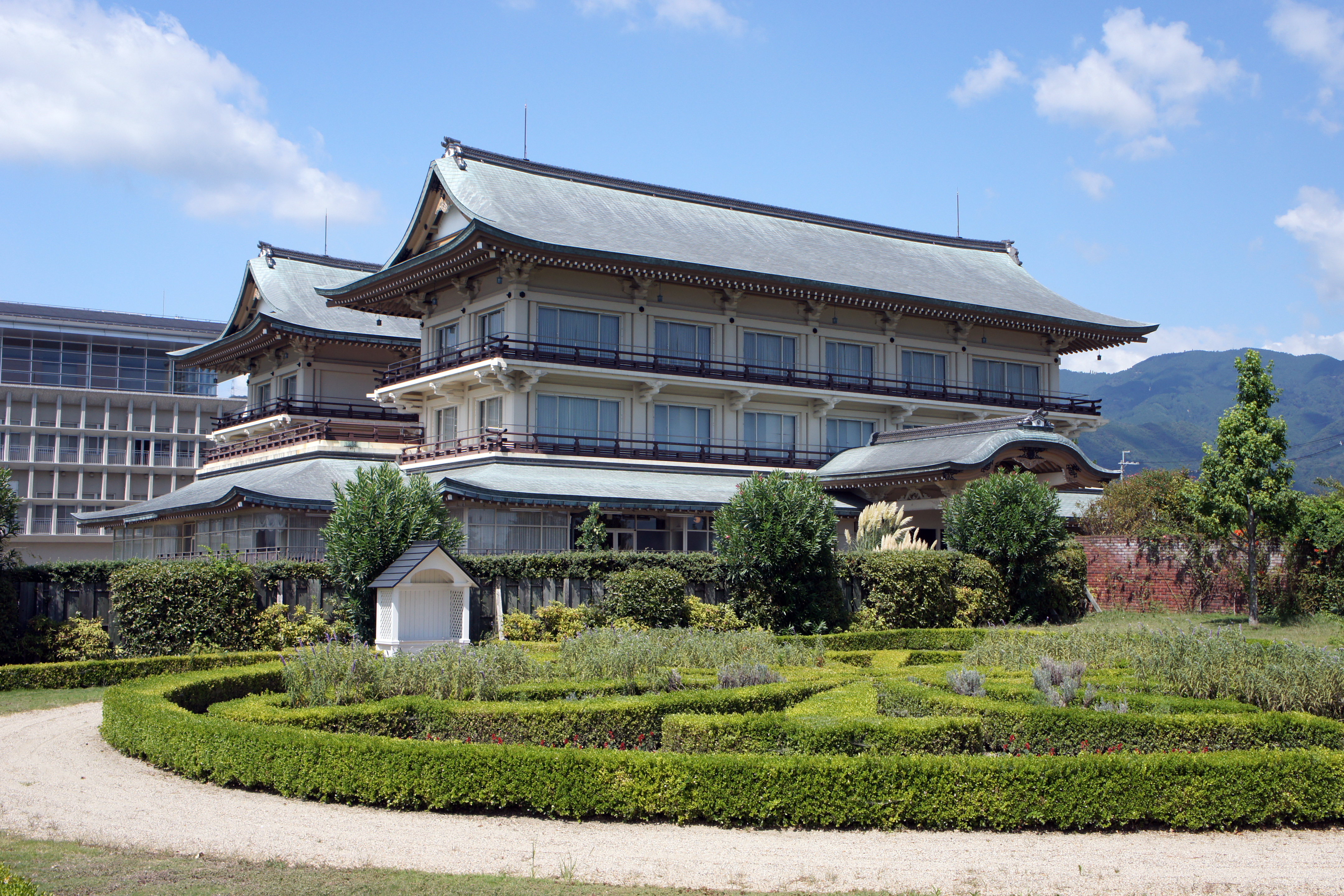 Biwako_Otsukan of Yanagasaki Lakeside Park in Otsu, Shiga prefecture, Japan.